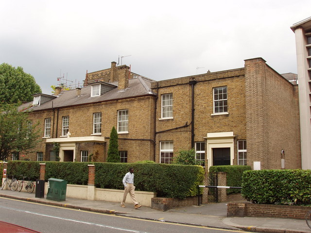 Allen Hall Roman Catholic seminary Allen Hall in Beaufort Street (by Battersea Bridge) is the seminary of the Roman Catholic Diocese of Westminster for training priests. See their website which has a full history of the seminary and the building - on the site of Saint Thomas More's house in Chelsea.